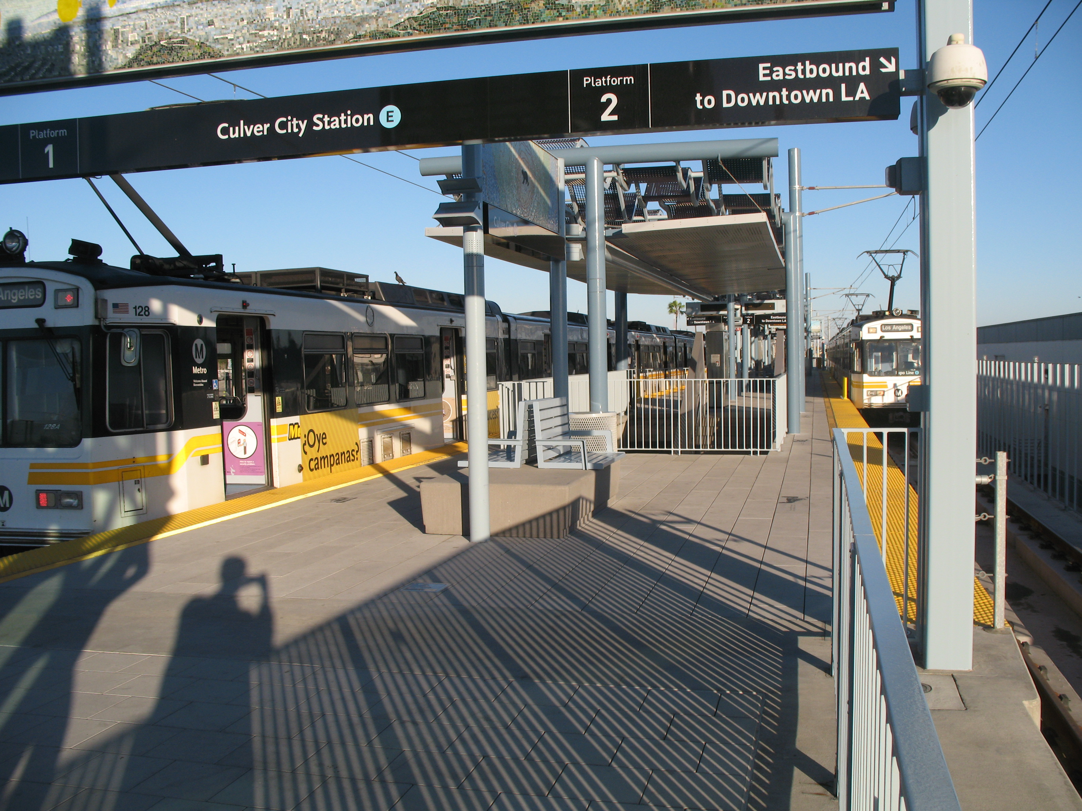 Arriving and departing three-car Nippon Sharyo light-rail trains at the Metro Expo Line Culver City Station.